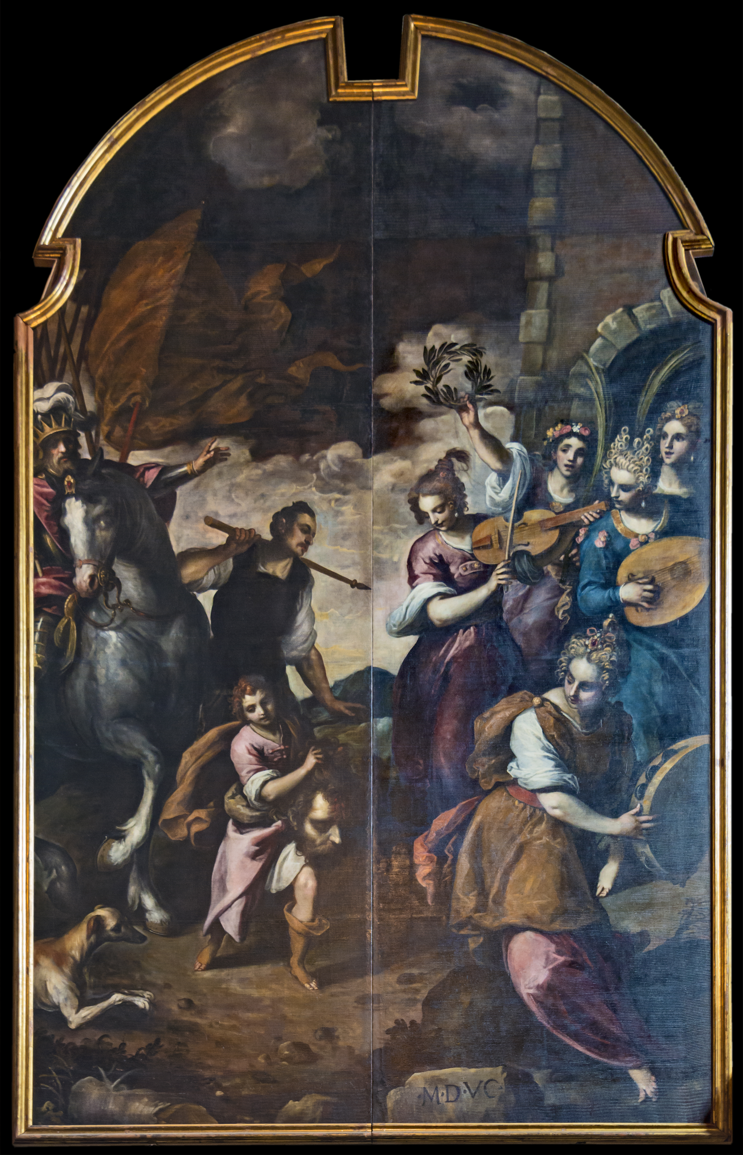 Church of San Zaccaria Venice - Sant’Atanasio chapel - Davide vincitore di Golia festeggioto dalle fanciulle di Gerusalemme by Palma il Giovane in 1595